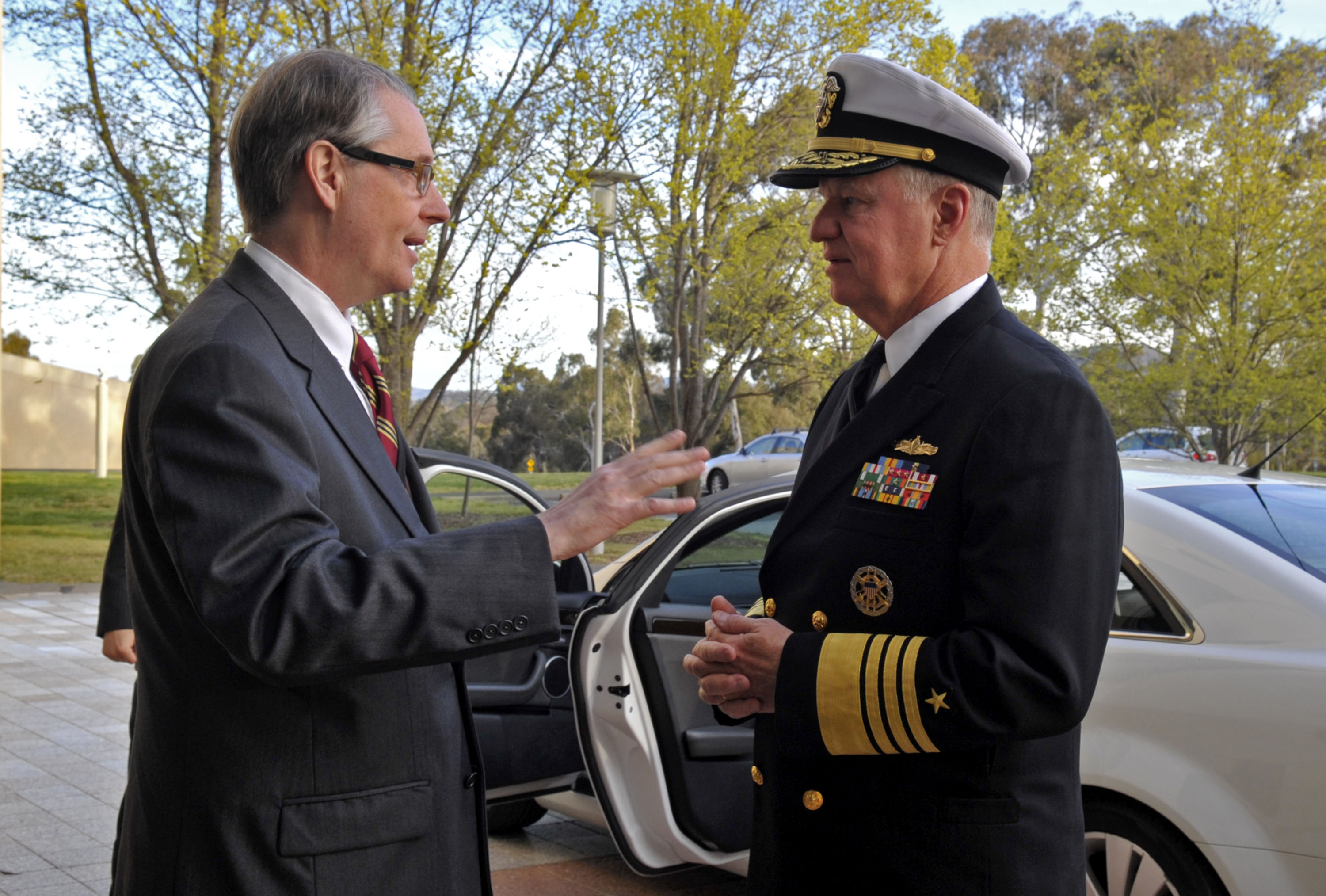 CANBERRA, Australia (Sept. 30, 2010) Chief of Naval Operations (CNO) Adm. Gary Roughead meets with Jason Hyland, Australia's Deputy Chief of Mission, while visiting Canberra. Roughead is in Australia to attend the 12th Wester Pacific Naval Symposium in Sydney and visit with Sailors and leadership of the Royal Australian Navy. (U.S. Navy photo by Chief Mass Communication Specialist Tiffini Jones Vanderwyst/Released)